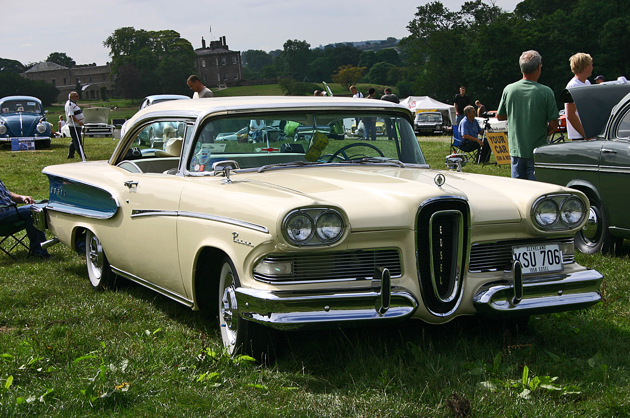 Edsel Pacer 2door Hardtop 1958